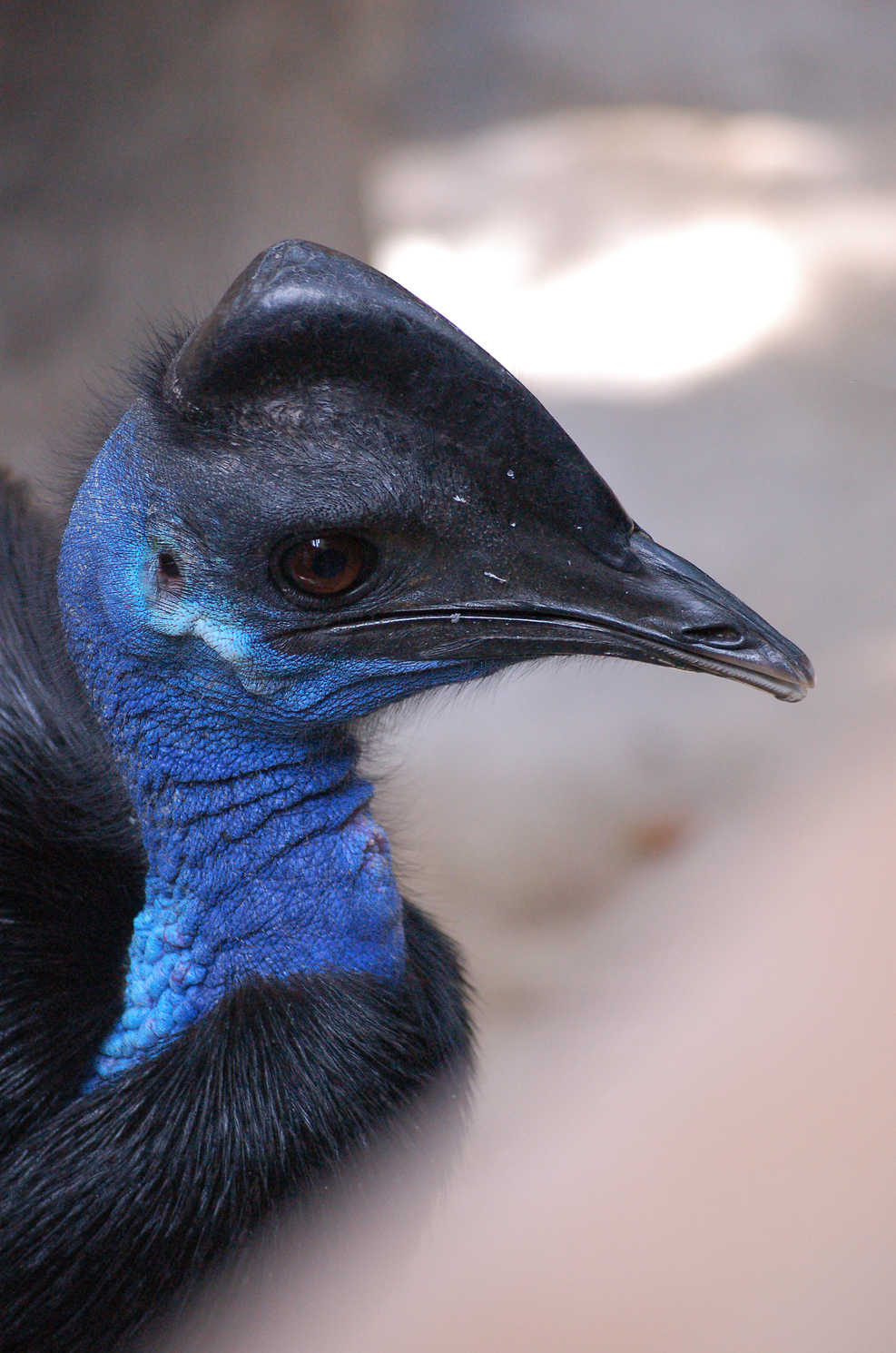 A Dwarf Cassowary (also known as the Bennett's Cassowary) at Avilon Zoo, Rodriguez, Rizal, Philippines.